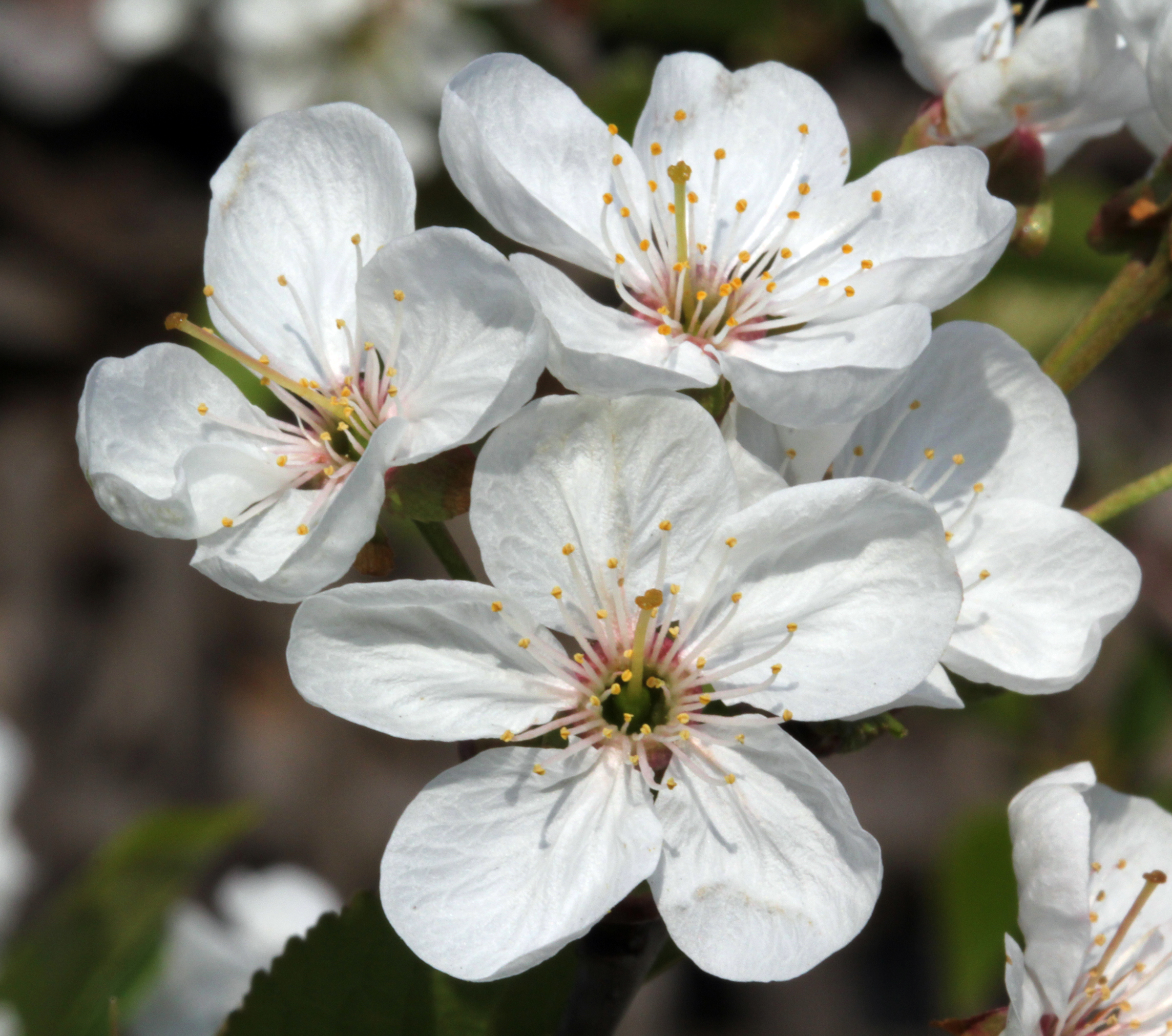 Flower of Prunus cerasus, east Bohemia, Czech Republic Prunus cerasus